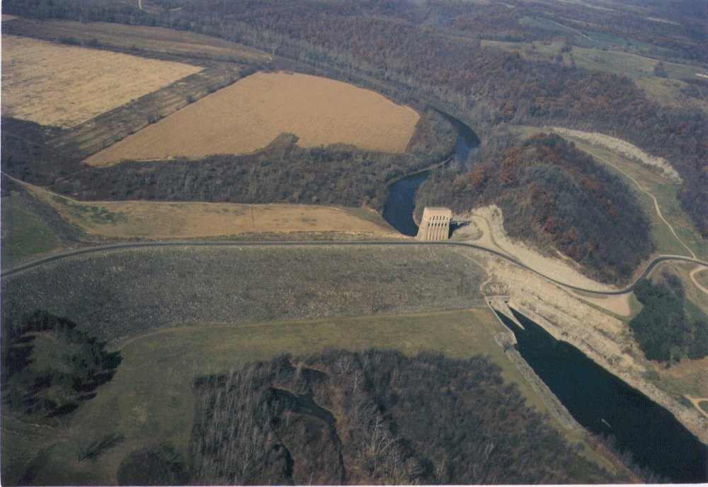 Mohawk Dam on the Walhonding River in Coshocton County, Ohio, USA. The dam is located about 25 miles east of Mount Vernon, Ohio. The dry dam was constructed by the U.S. Army Corps of Engineers for flood control in the 1930s.